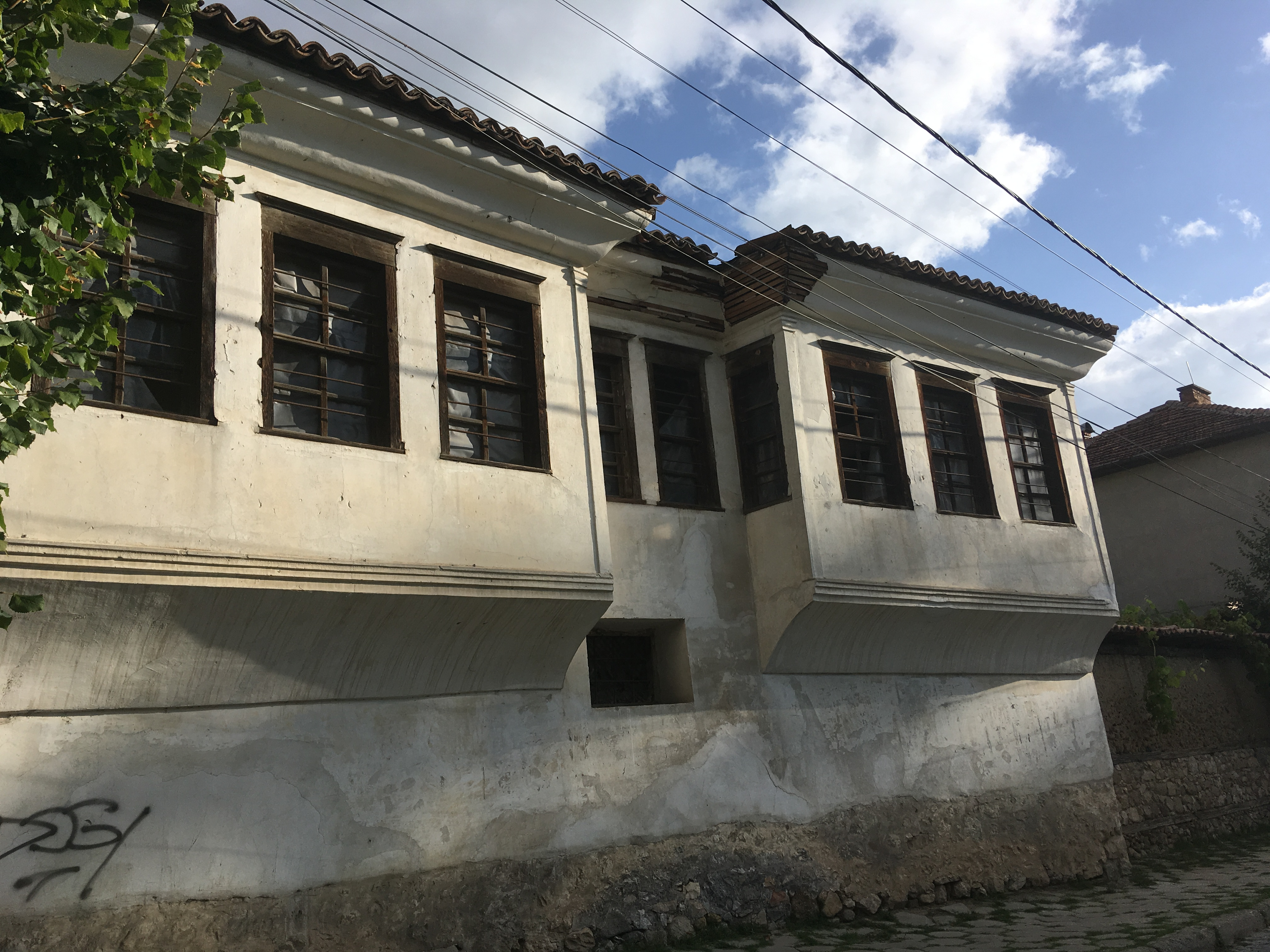 Old house in Gotse Delchev